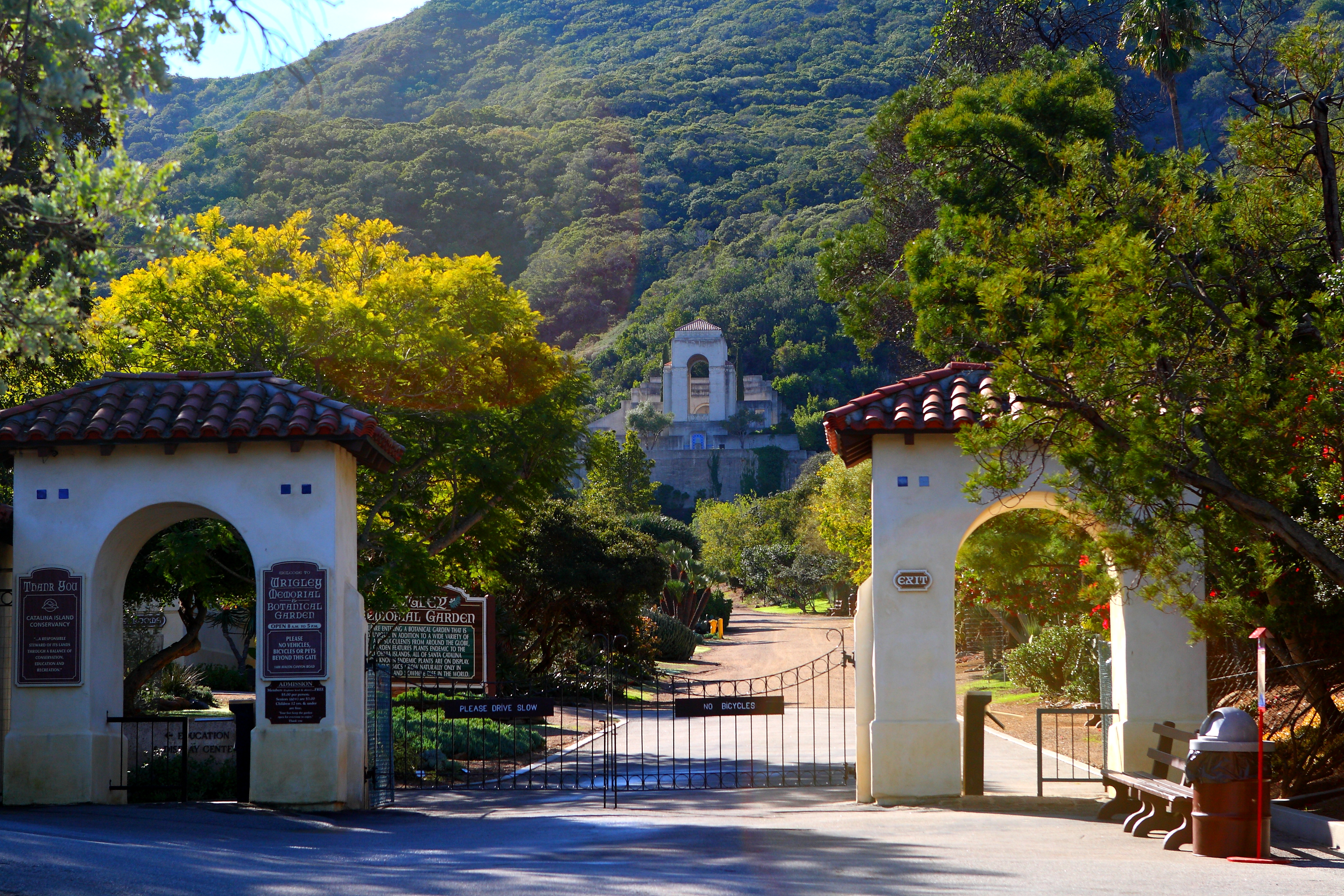 Wrigley Memorial from the front, in the Wrigley Memorial & Botanic Garden. A botanic garden on Santa Catalina Island, California, USA.